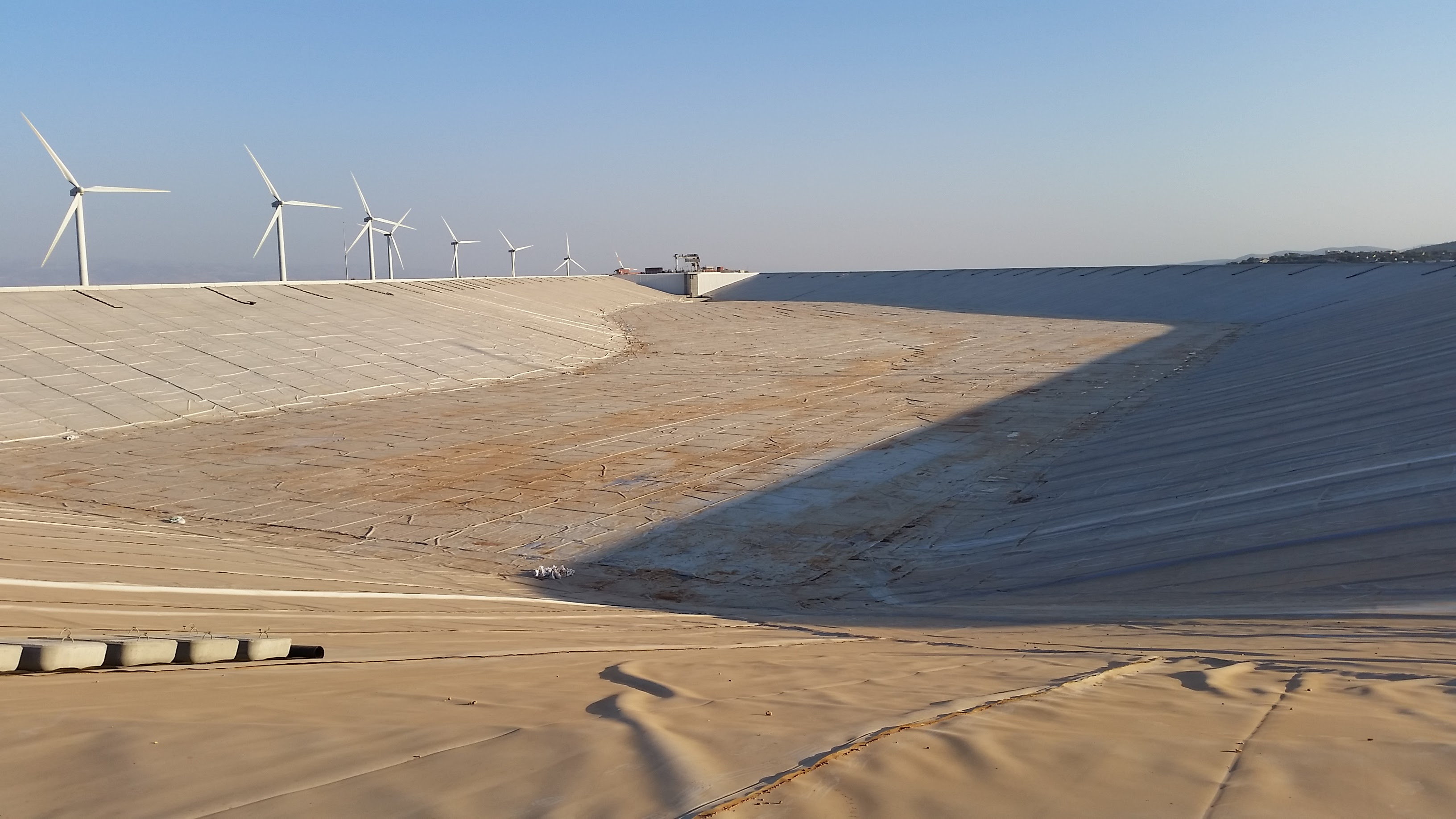 Ma'ale Gilboa Pumped-storage hydroelectricity under constraction